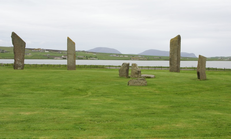 Stones of Stenness, Mainland, Orkney, Scotland.